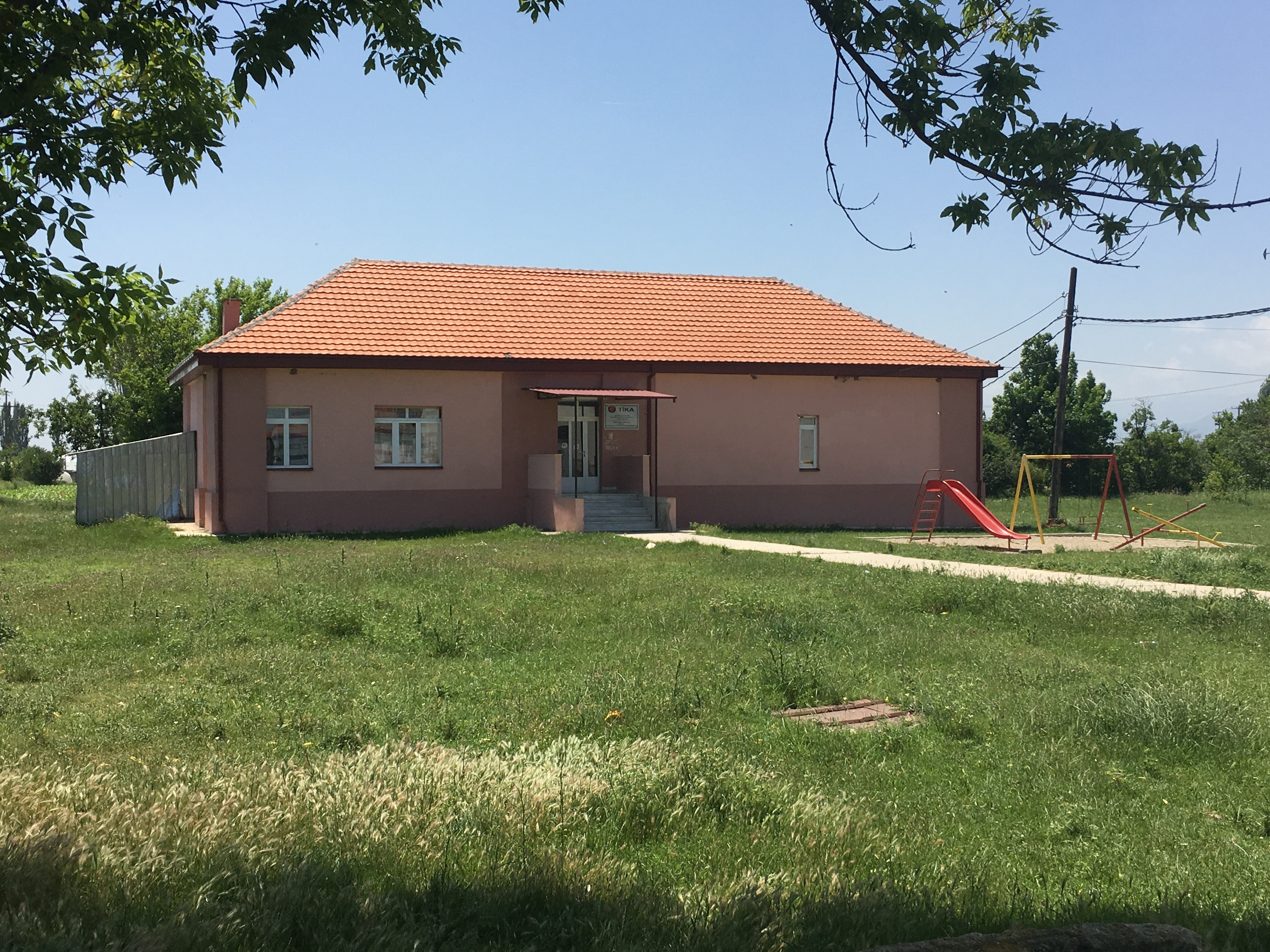 The primary school in the village of Budakovo